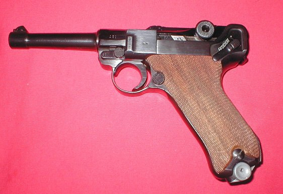 Image of a Luger P08, made by Mauser in 1937. Image is made by G. van Vlimmeren. First uploaded to the nl wiki under the same name by Vlimmere